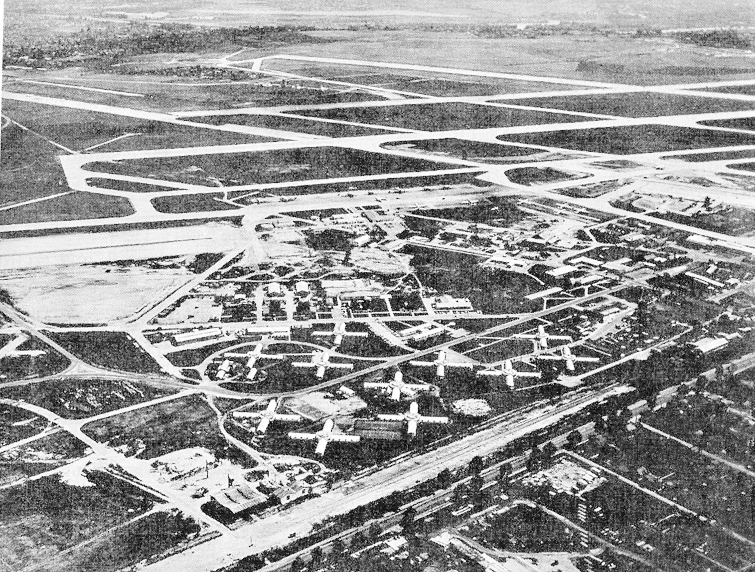 USAF Photo of Orly Air Base France.